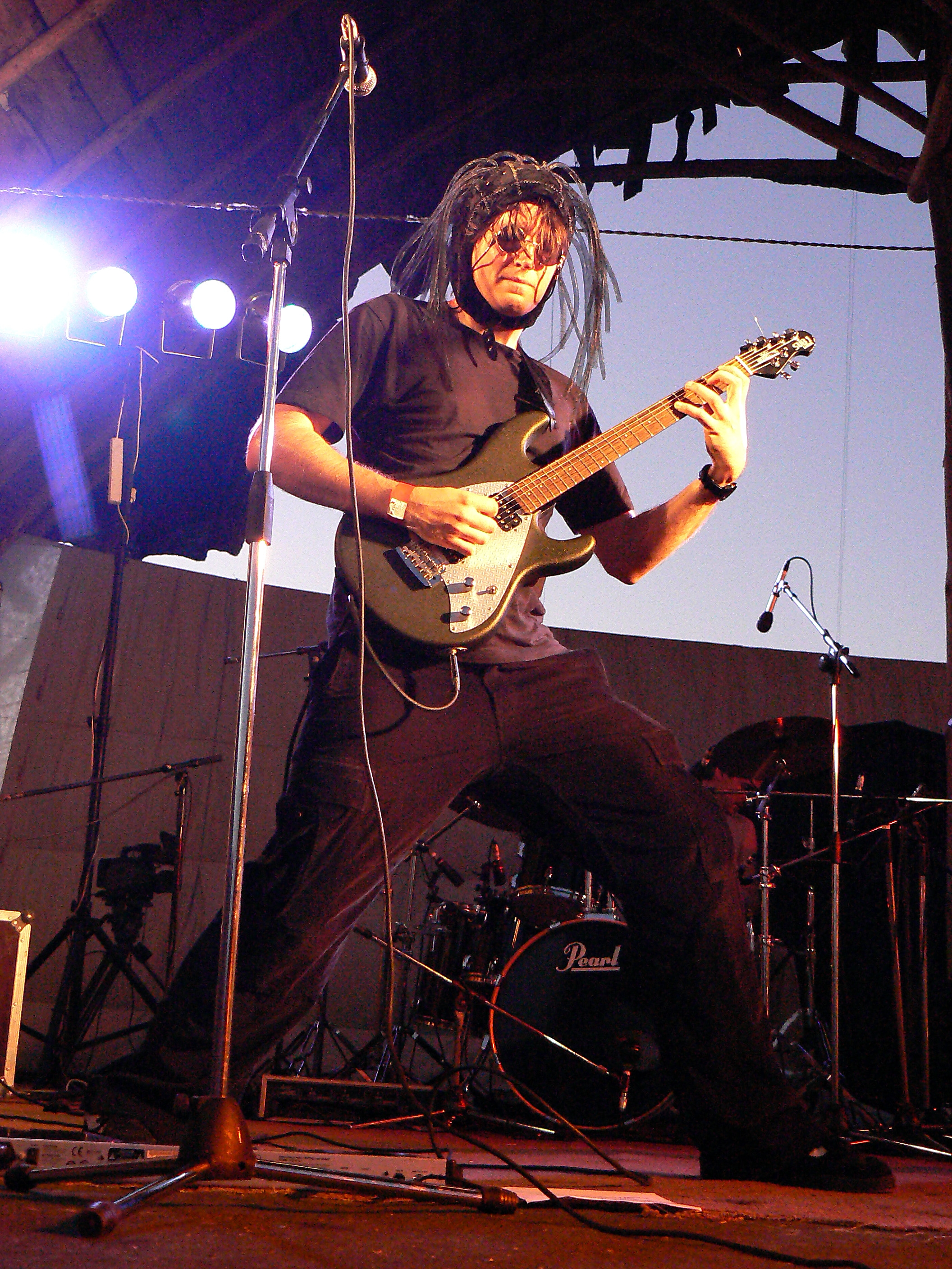 Jan Zehrfeld from Panzerballett performing at "Baltic Prog Fest 2008" in Kernavė, Lithuania.